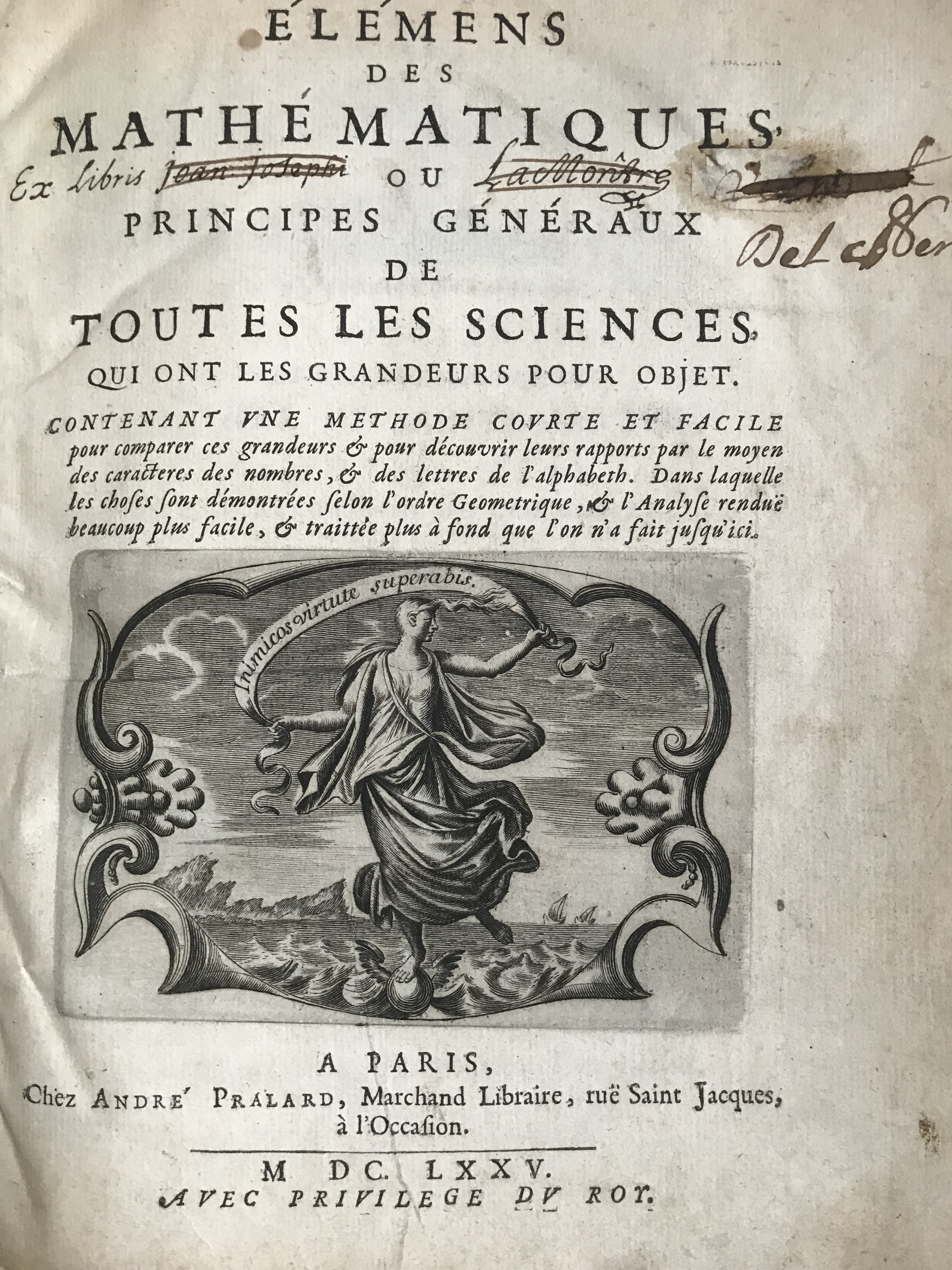 Title page of a mathematical book written by Jean Prestet and printed by André Pralard in Paris in 1675